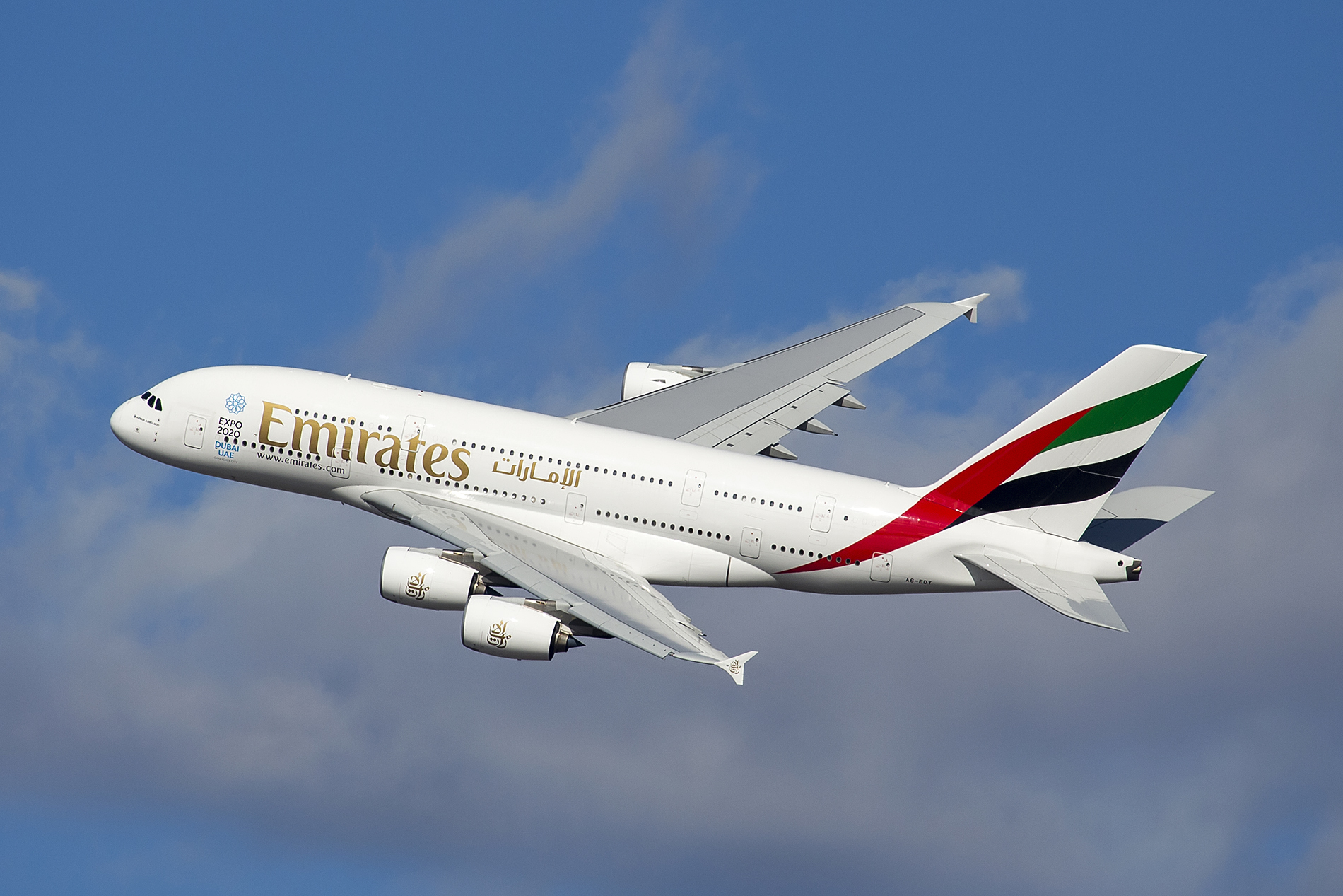 New York JFK